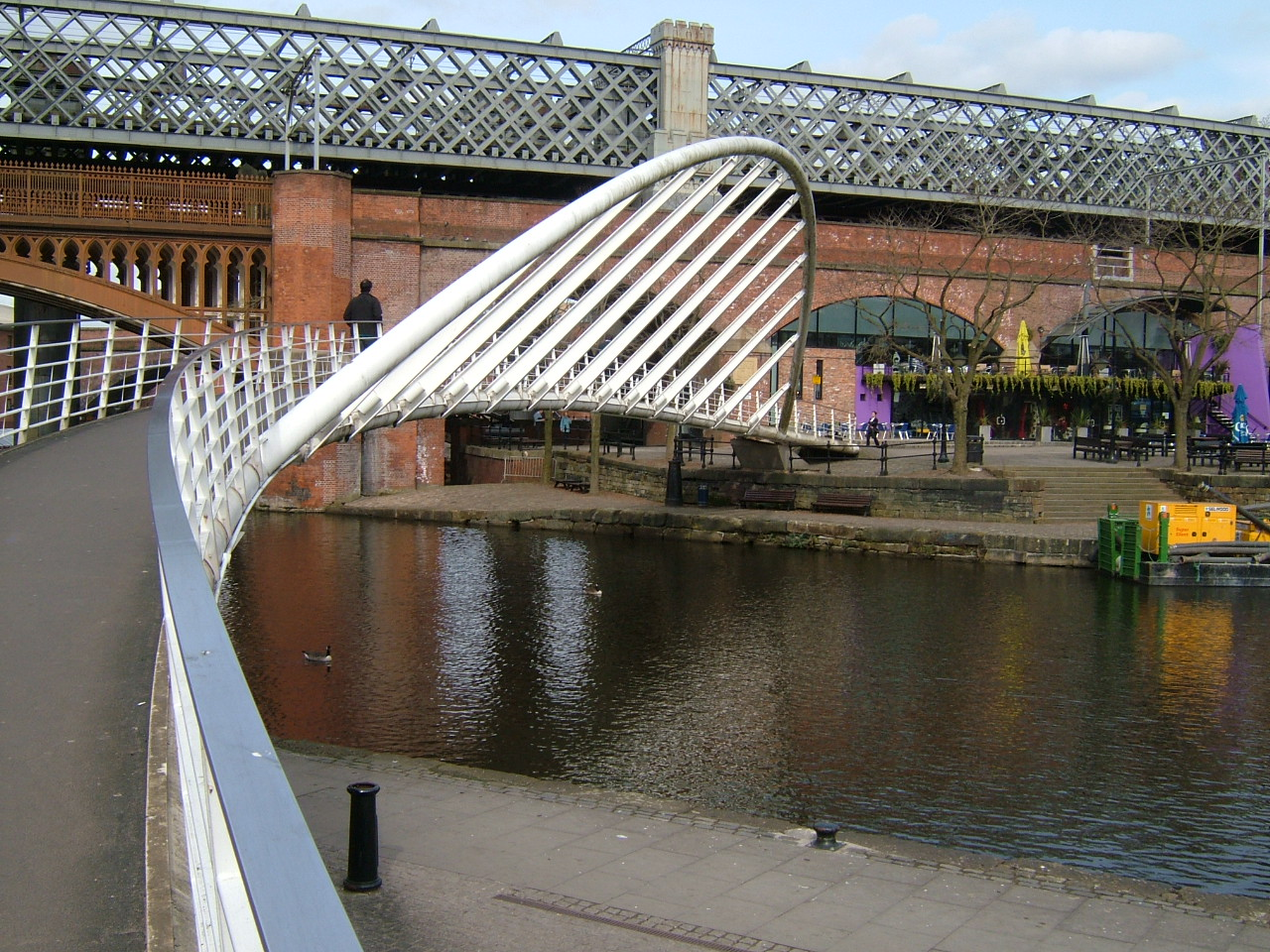 The Bridgewater Canal was commissioned by Francis Egerton, 3rd Duke of Bridgewater, to transport coal from his mines in Worsley to Manchester. Castlefield was the Manchester basin, and it was watered by the River Medlock. In 1802 the Rochdale Canal joined here at Dukes Lock. A series of Canal Warehouses were built by the various traders. Merchants Bridge leading to Barca, with viaducts behind.